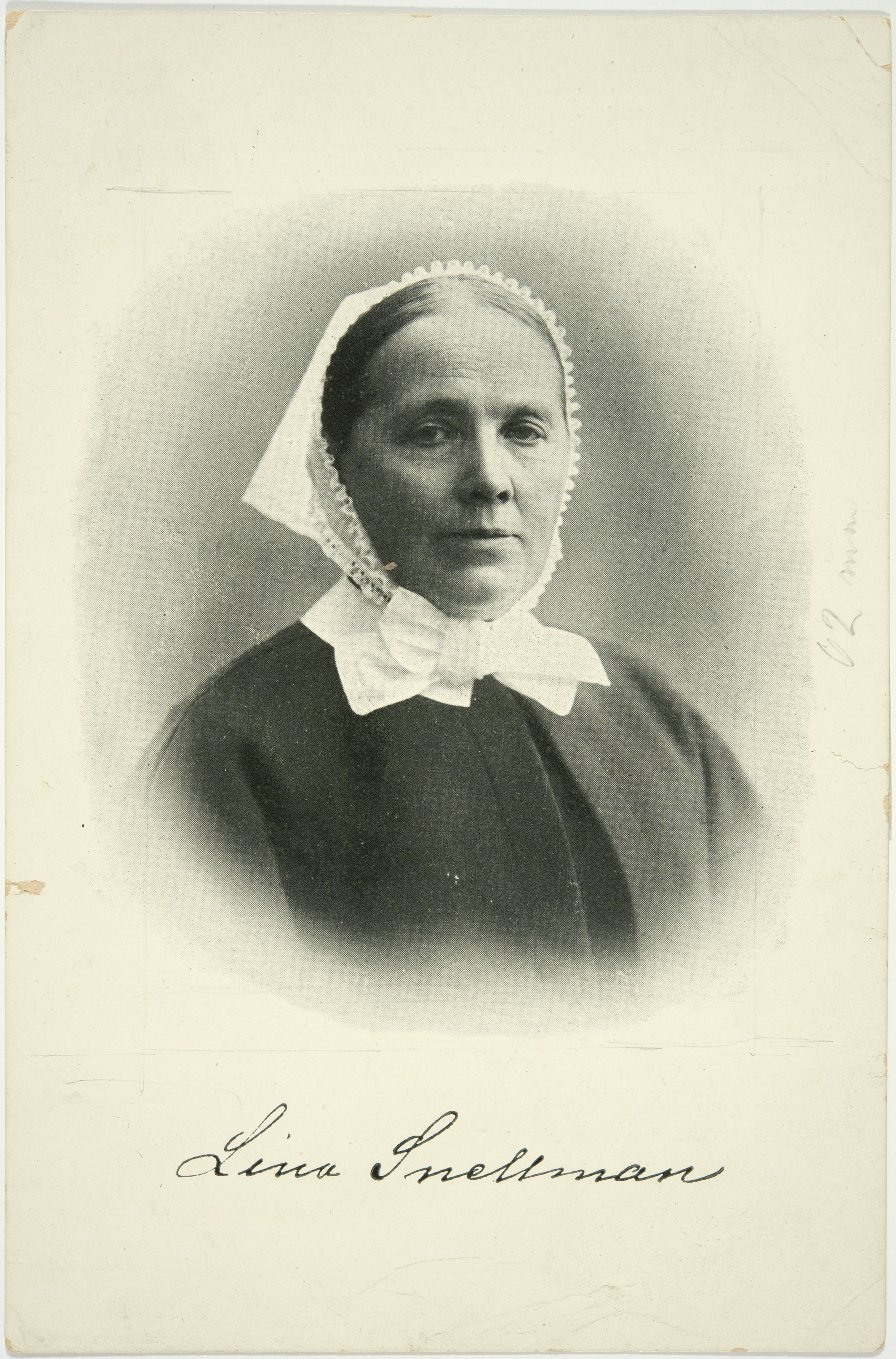 Photograph of the Finnish deaconesse Lina Snellman (1846–1924).